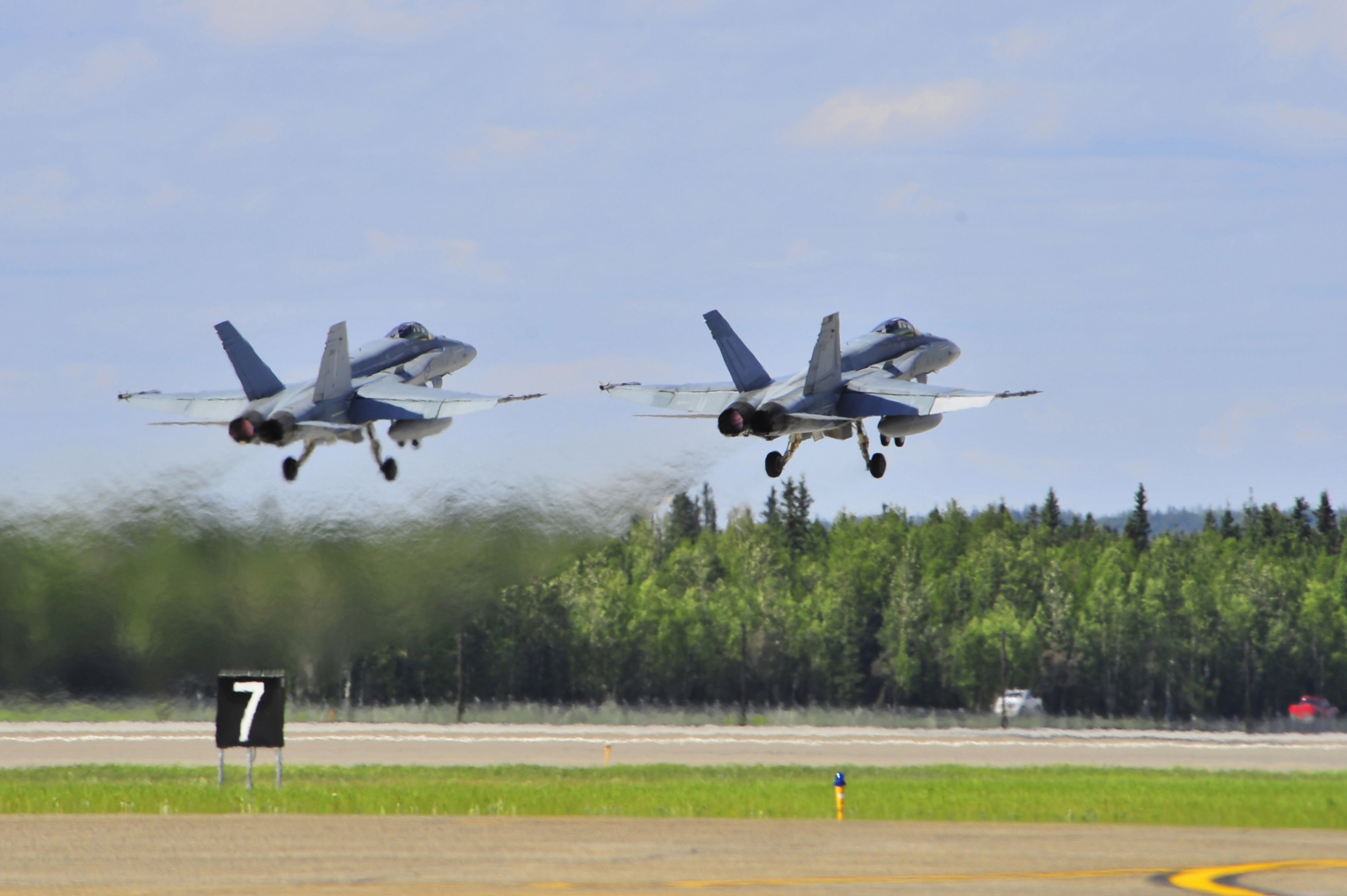 Two Royal Australian Air Force F/A-18 Hornets launch side-by-side from the runway during RED FLAG-Alaska 11-2 July 11, 2011, Eielson Air Force Base, Alaska. RF-A, a two week long exercise, focuses on aerial combat training for U.S. and allied forces and is conducted within the Joint Pacific Alaska Range Complex, a 67,000 square mile training range. These aircraft were assigned to No. 3 Squadron RAAF.